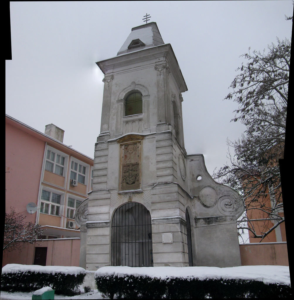 St. Nicholas Tower (remnant of an erstwhile church) in Lugoj, Romania